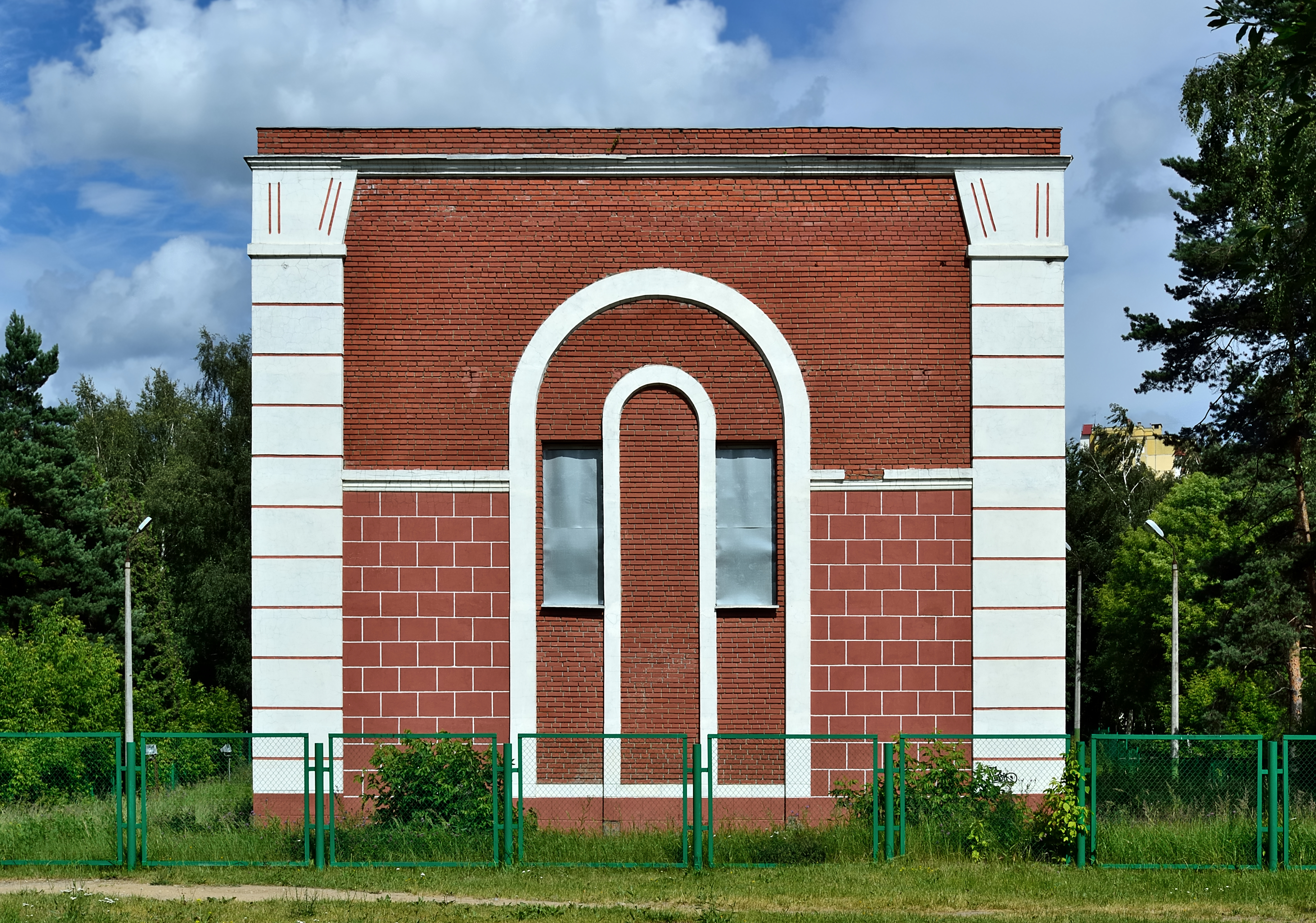 Korolyov, Moscow Oblast. A valve house of the Eastern Water Supply Canal (Akulovo Water Supply Canal) located at the crossing of the canal and Pionerskaya Street. 1930s.